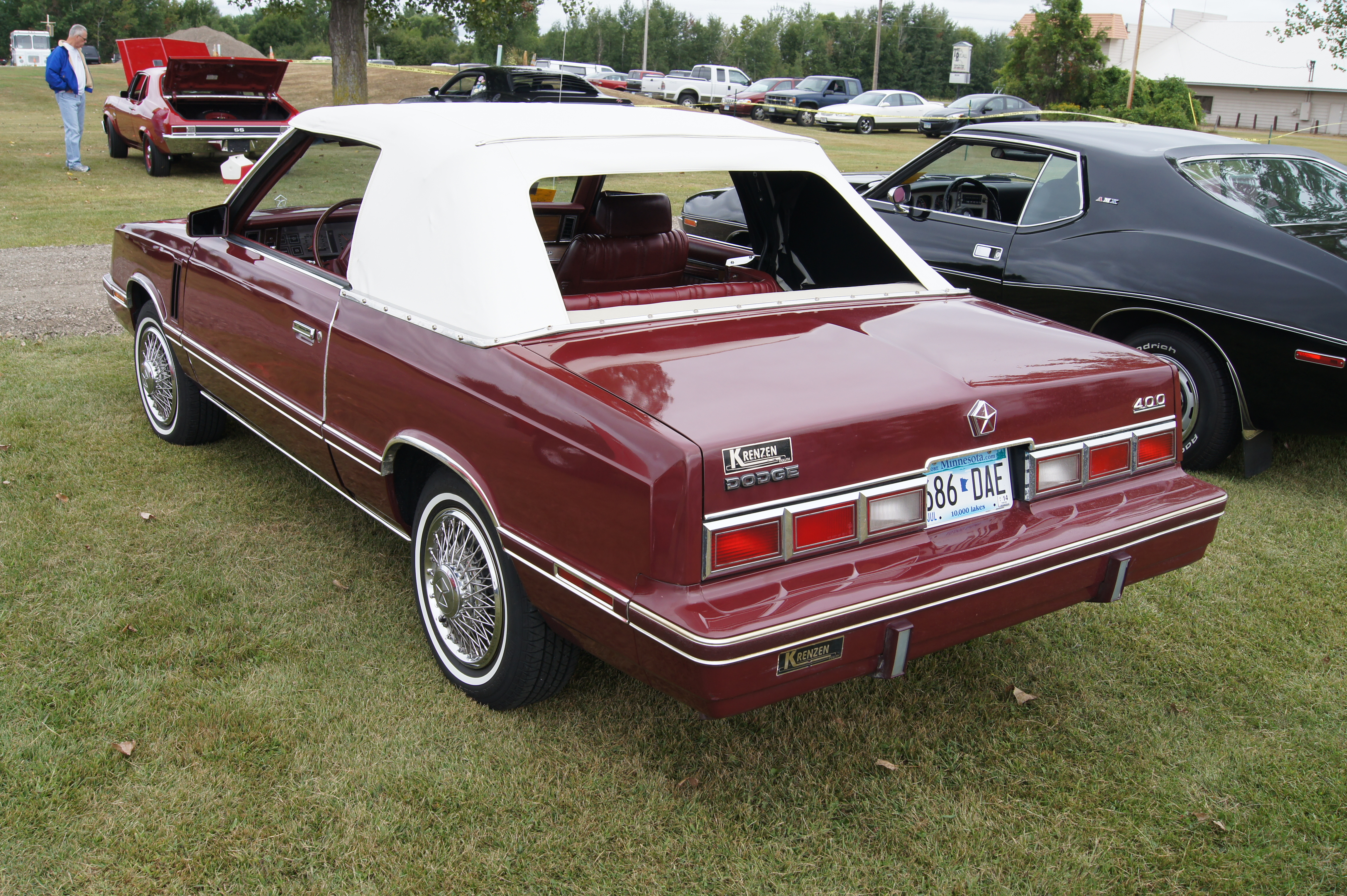 North Star Chapter Studebaker Drivers Club 13th Annual Labor Day Car Show September 2, 2013 Blacksmith Lounge Hugo, MN